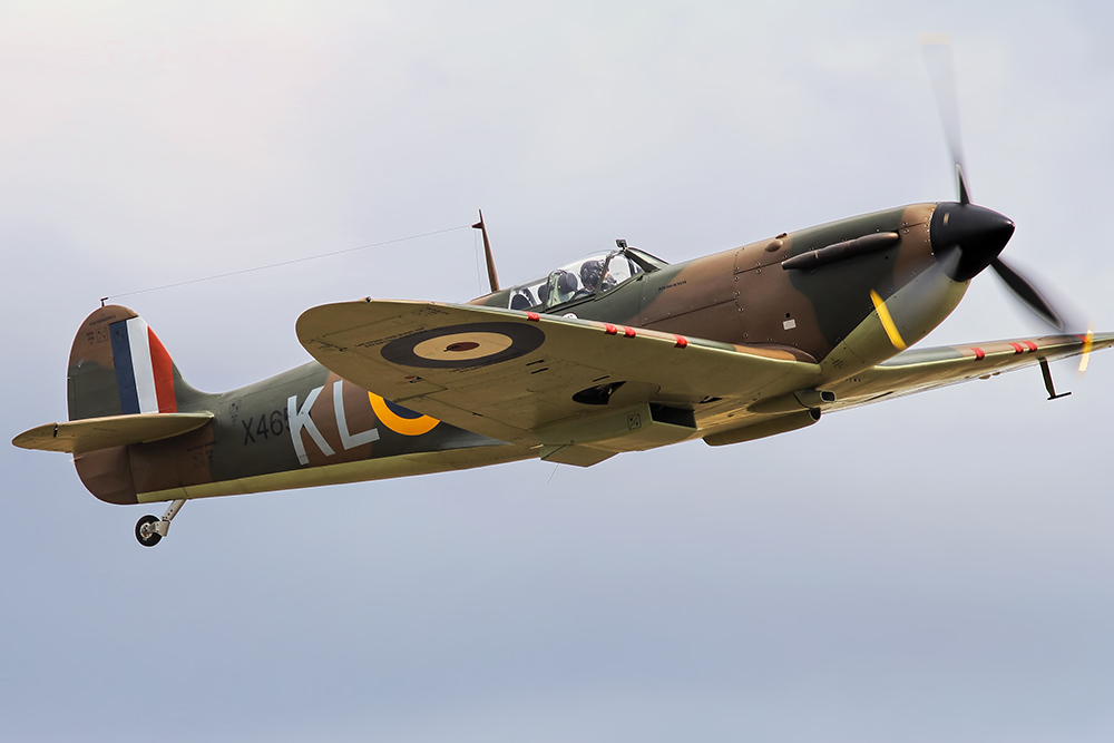 G-CGUK, X4650, C/N 6S-75531, (1940) - Duxford Flying Legends, 11/08/2015